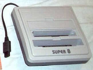 A Super 8 video game accessory that allows NES and Famicom games to be played on the Super Nintendo Entertainment System game console.